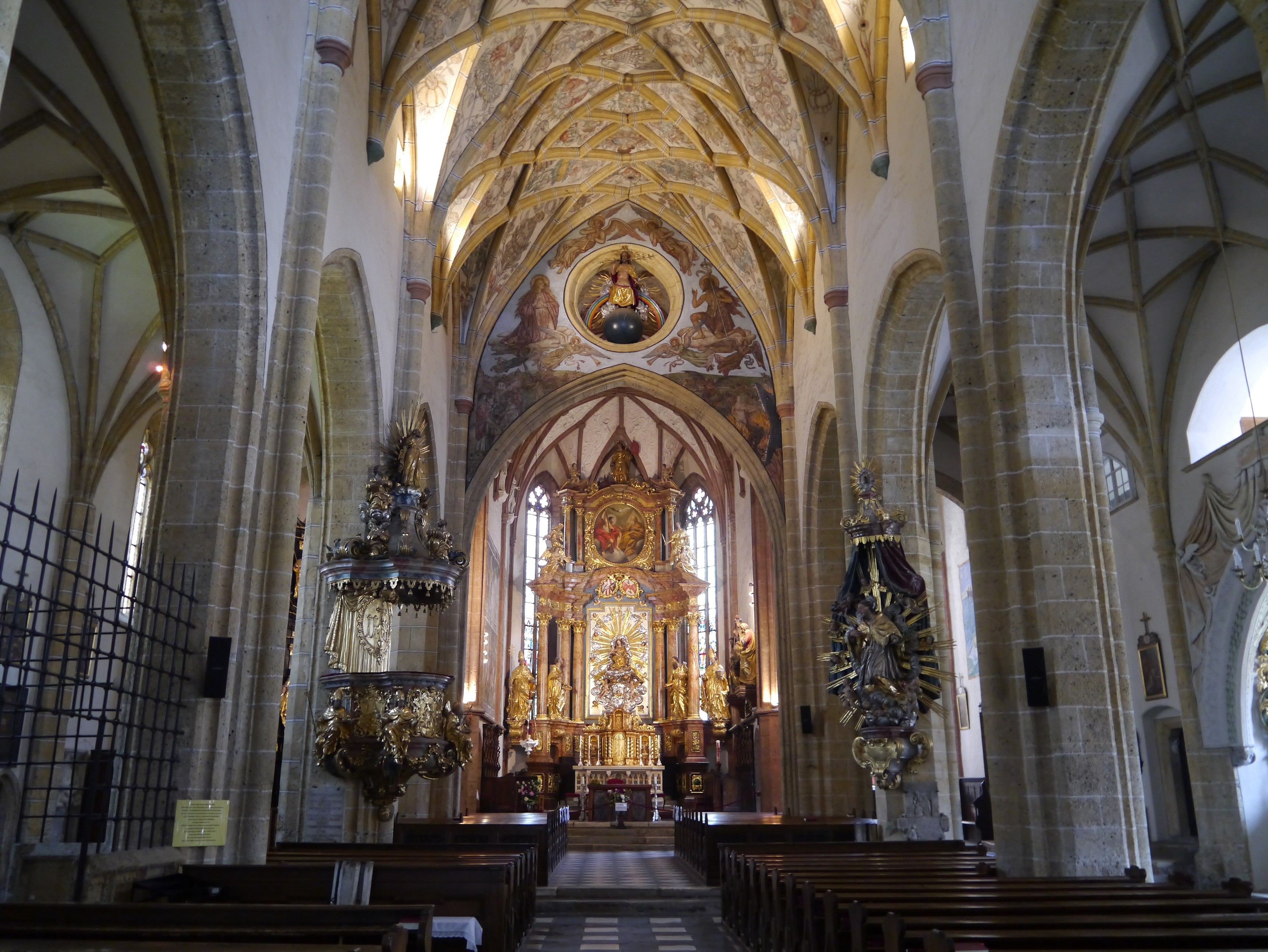 Nave of the Minster St. Mary Assumption, Maria Saal, Carinthia